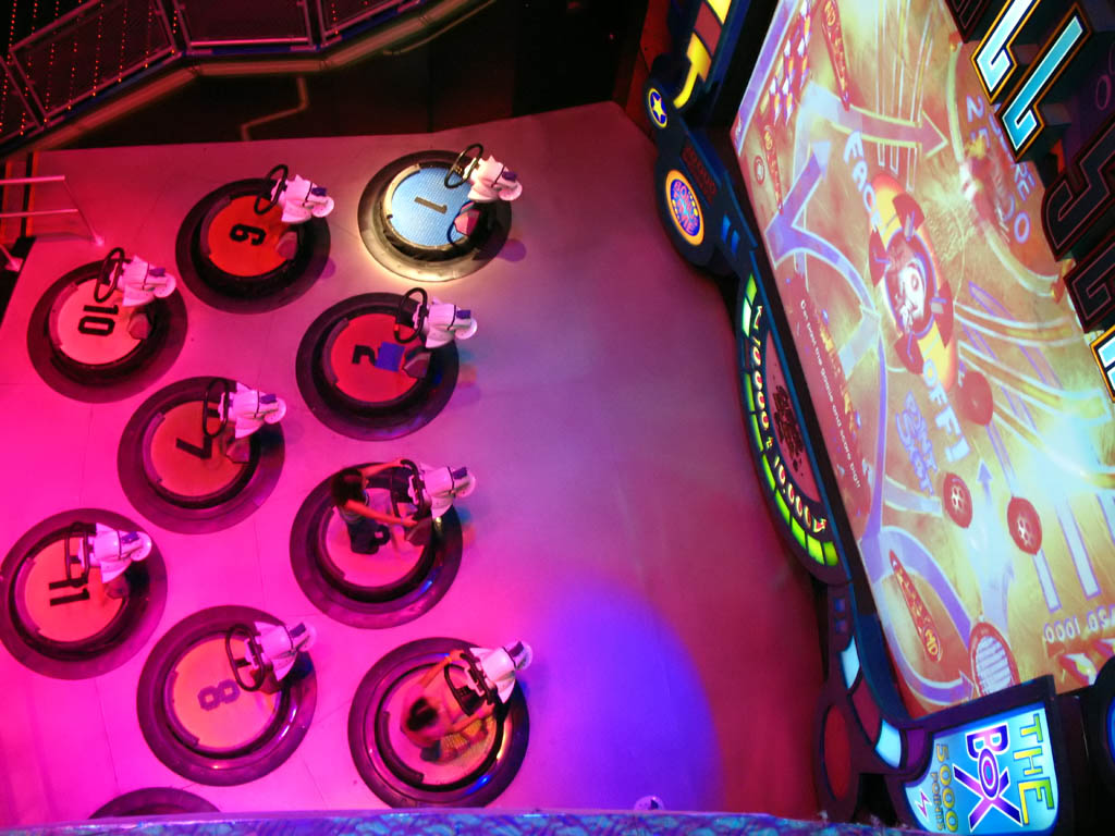 Mighty Ducks Pinball Slam at DisneyQuest. Taken June 2007